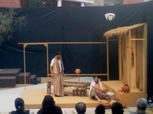 This picture is of the stage performance played by National School of Drama at the GGSIPU, Delhi during Anugoonj, 2011